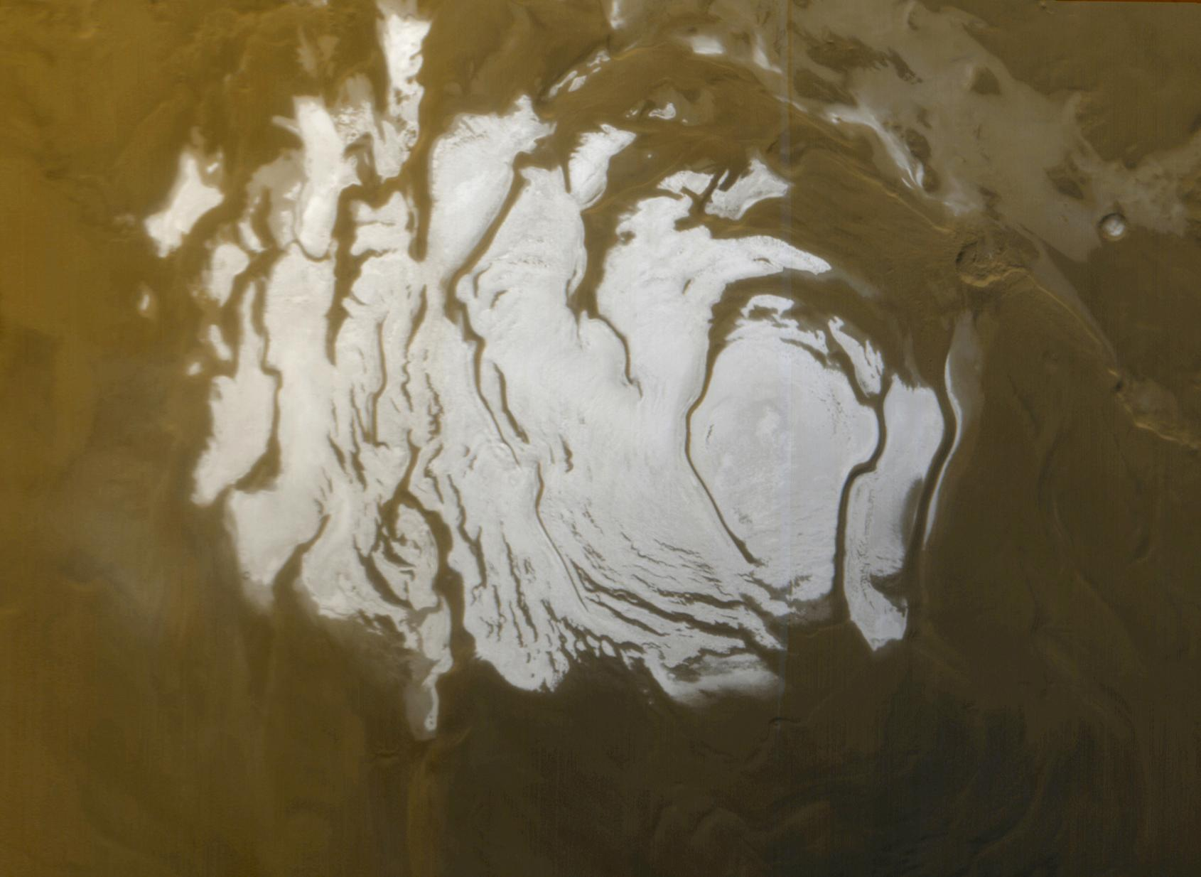 This is the south polar cap of Mars as it appeared to the Mars Global Surveyor (MGS) Mars Orbiter Camera (MOC) on April 17, 2000. The polar cap from left to right is about 420 km (260 mi) across.